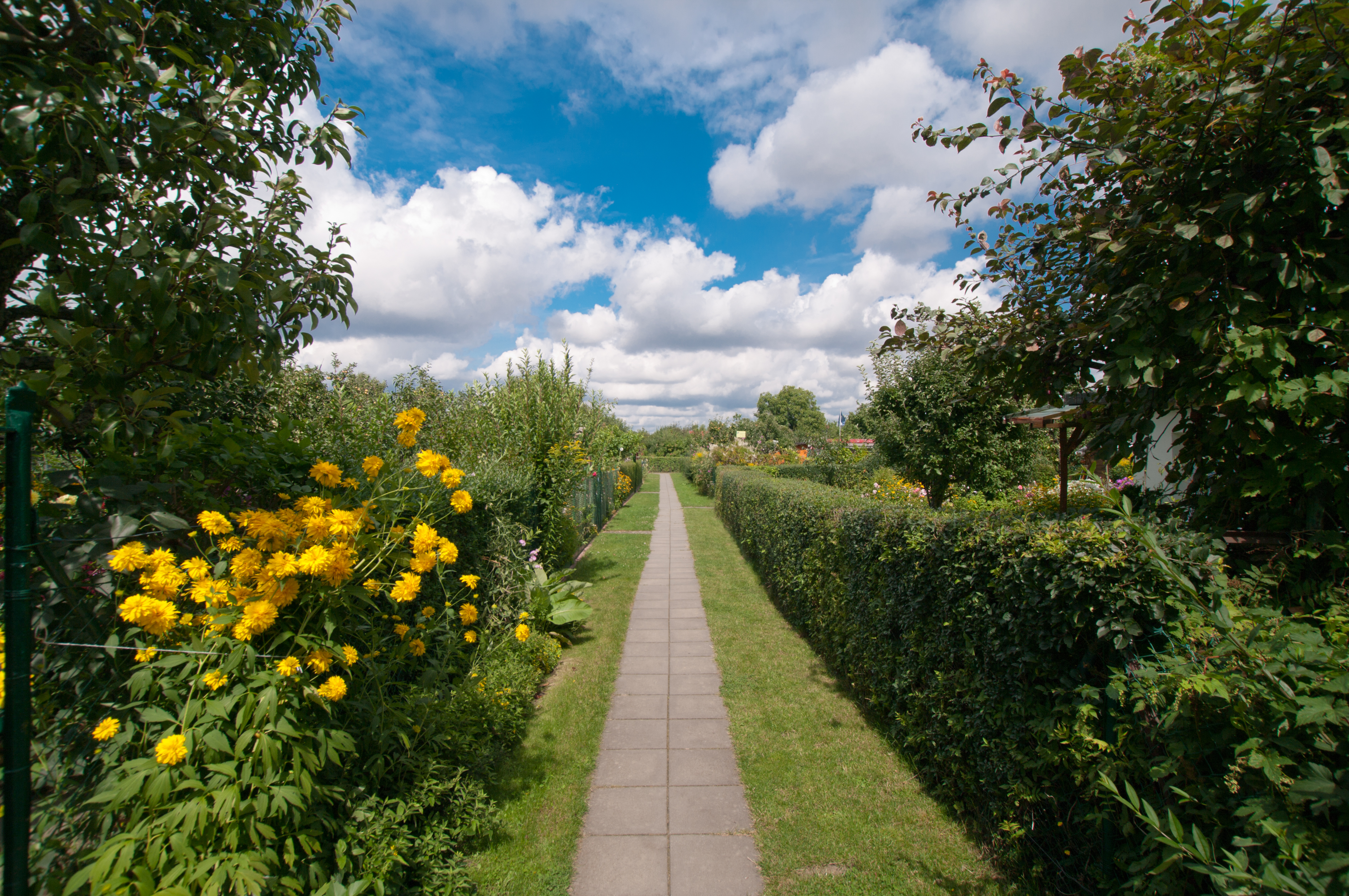 Garden colony Berlin-Südgelände.